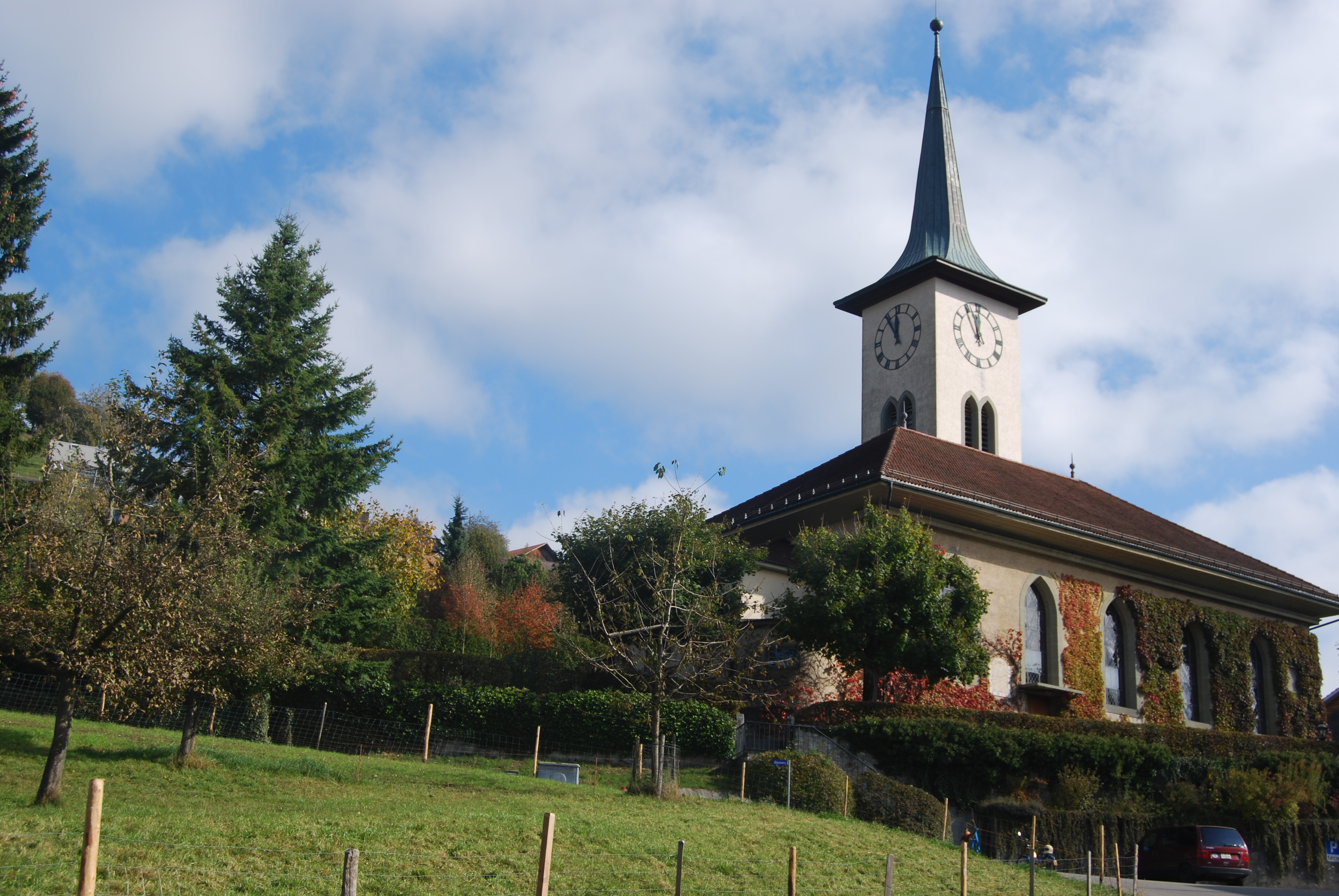 Church of Grosshöchstetten, canton of Bern, SwitzerlandEsperanto: Preĝejo de Grosshöchstetten, Kantono Berno, Svislando